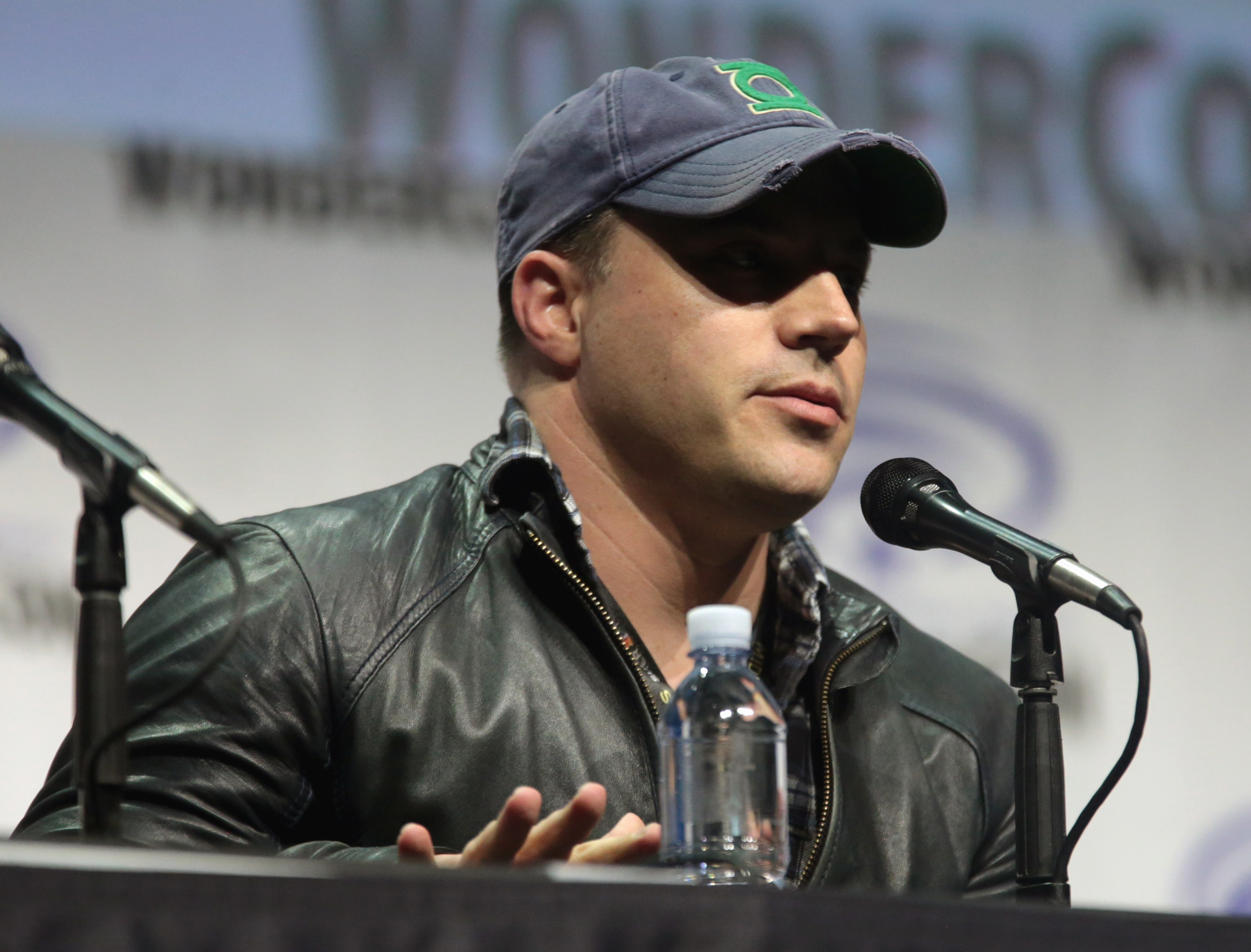 Geoff Johns speaking at the 2017 WonderCon in Anaheim, California.